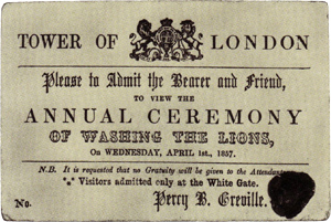 A ticket to the washing of the lion, a traditional April fool's prank